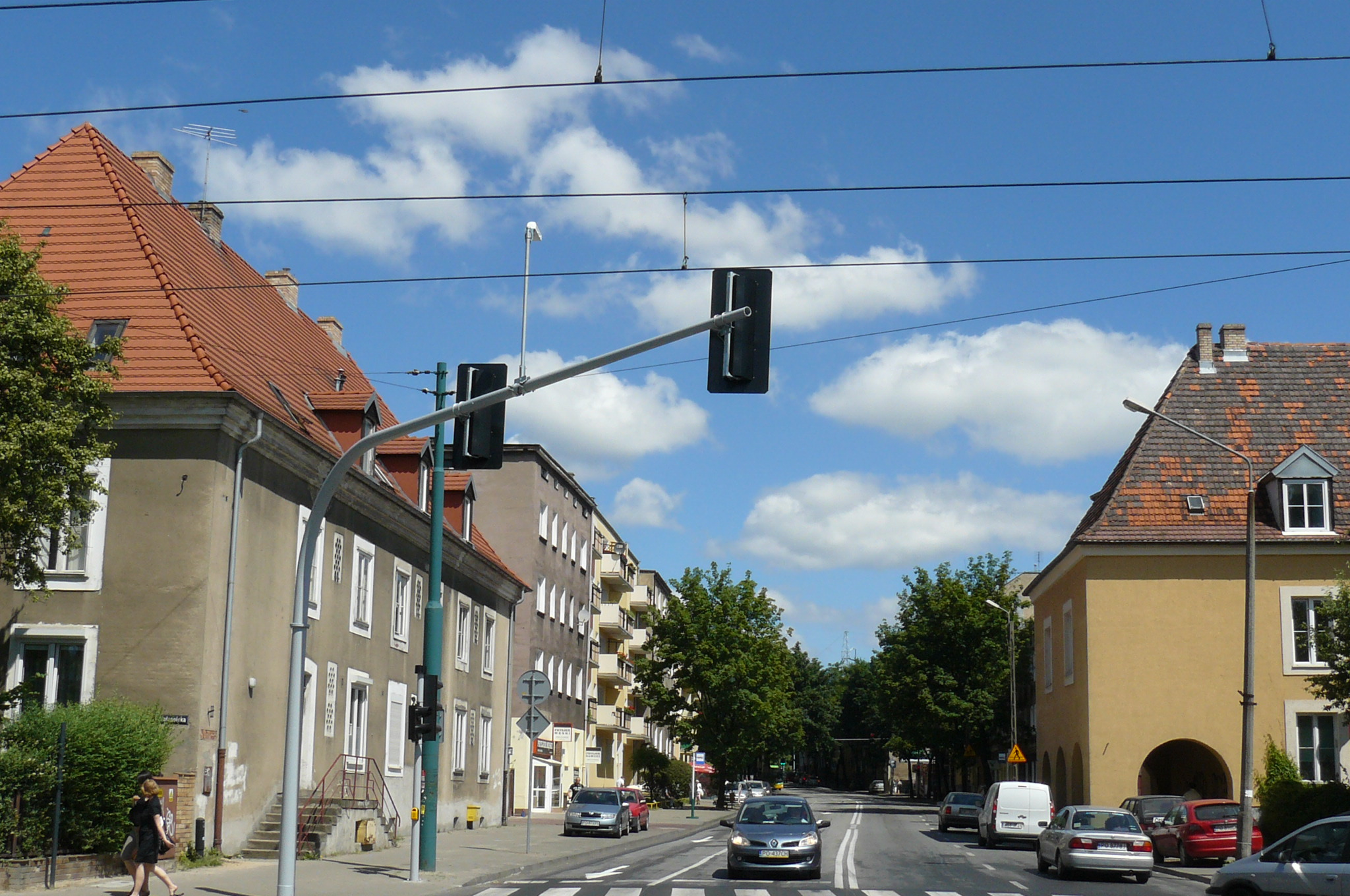 Nad Wierzbakiem Street in Poznan.